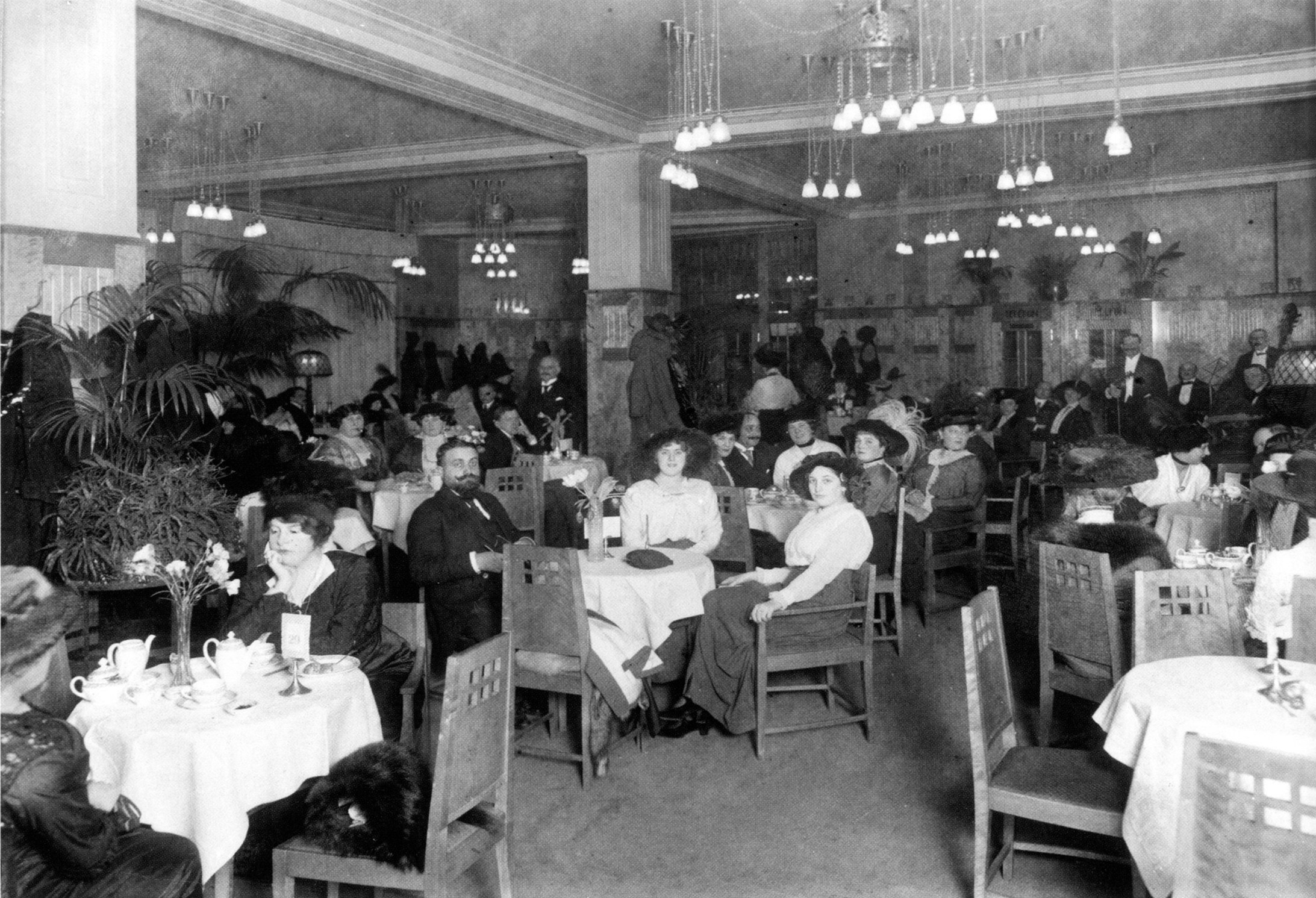 Tea room of german warehouse "Kaufhaus des Westens" (KaDeWe), Berlin yellow Buckley carpet, furnished with swedish birchwood